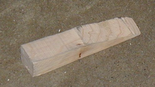 I took this photograph and I am releasing it into the public domain